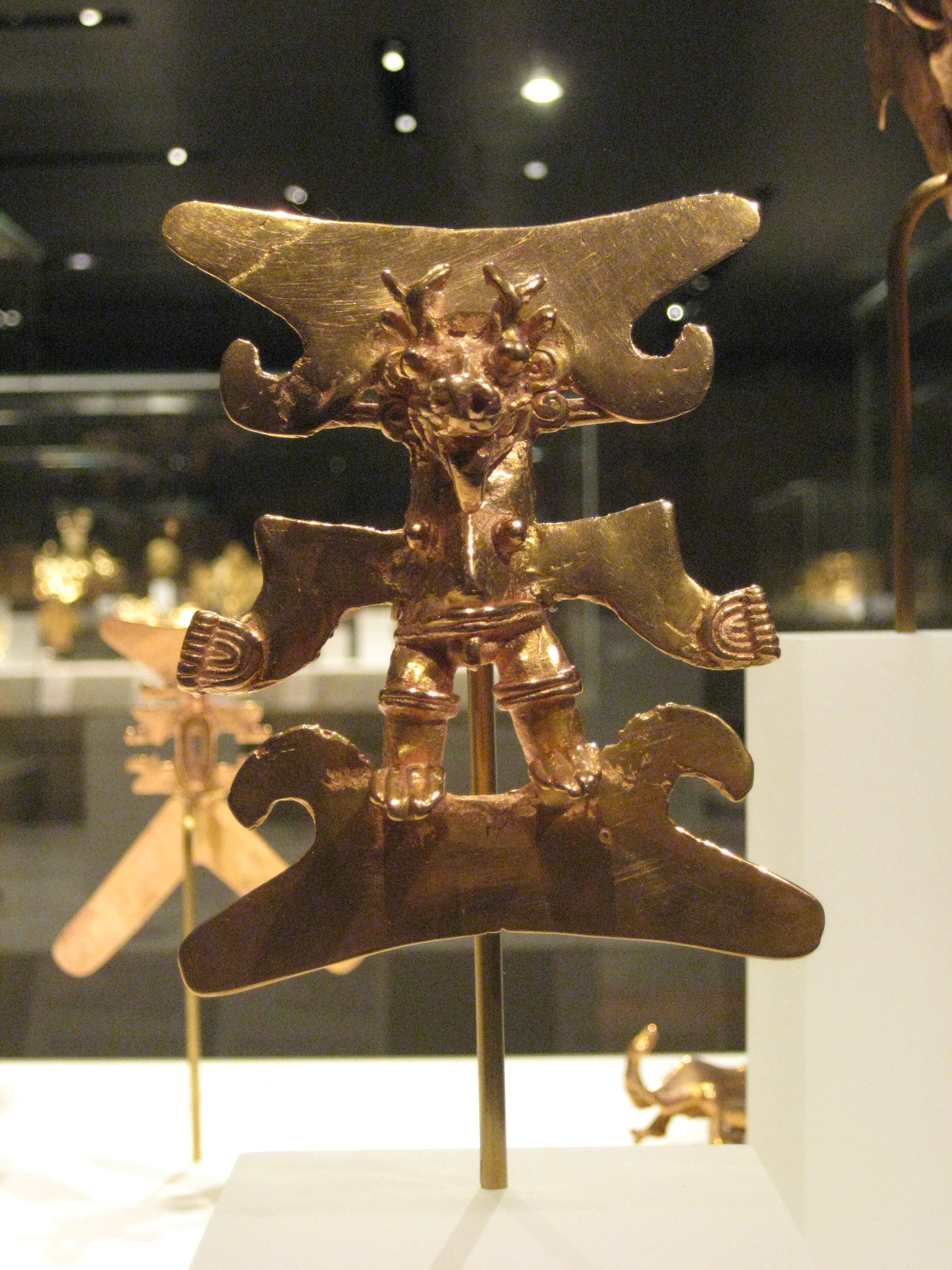 Costa Rica, Chiriqui 11th - 16th century Cast gold alloy Item number: 1979.206.906